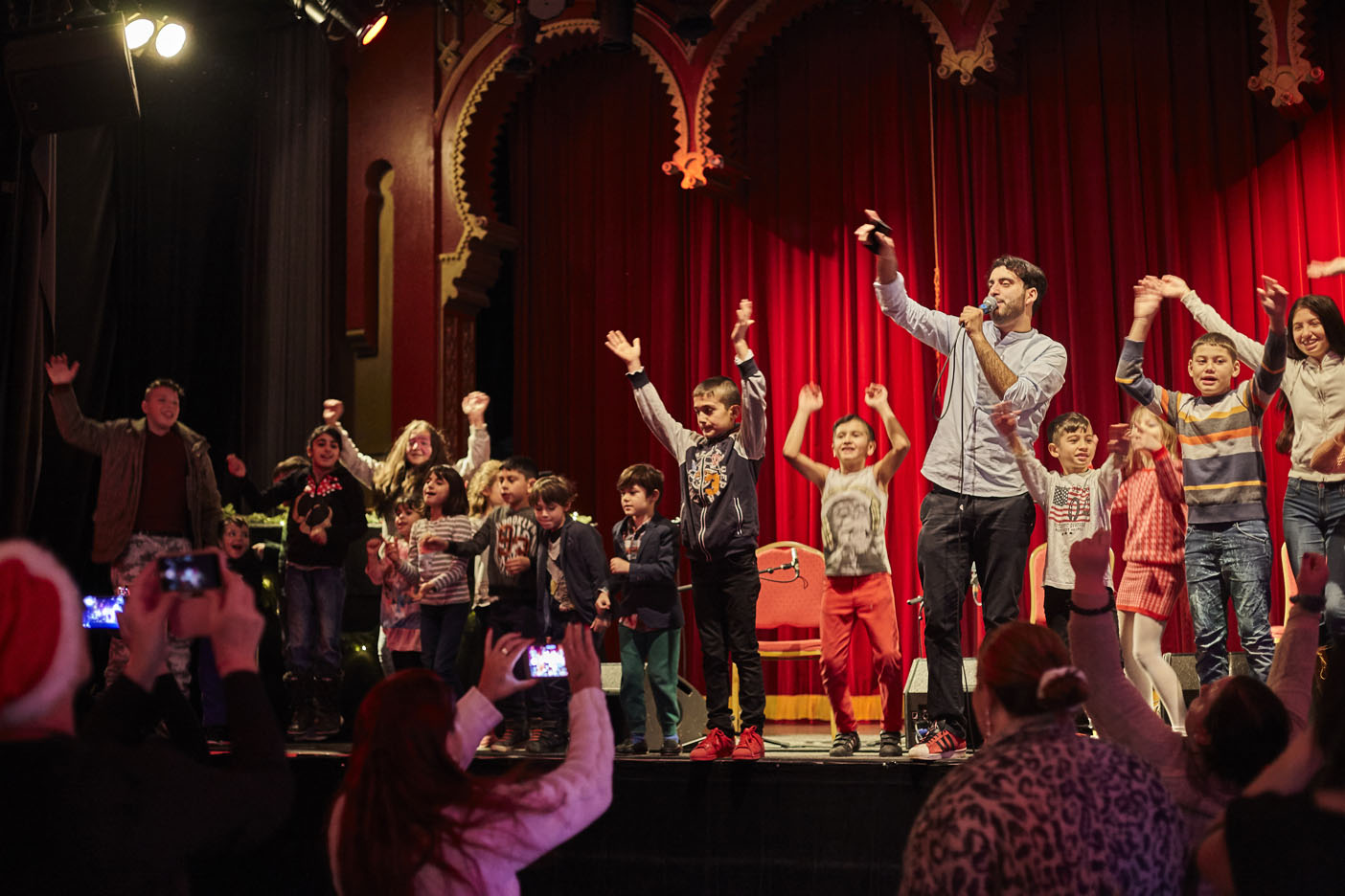 Jalla Jalla en Jul för Alla är en årligt julfesten för hemlösa och behövande som arrangeras av Cool Minds.